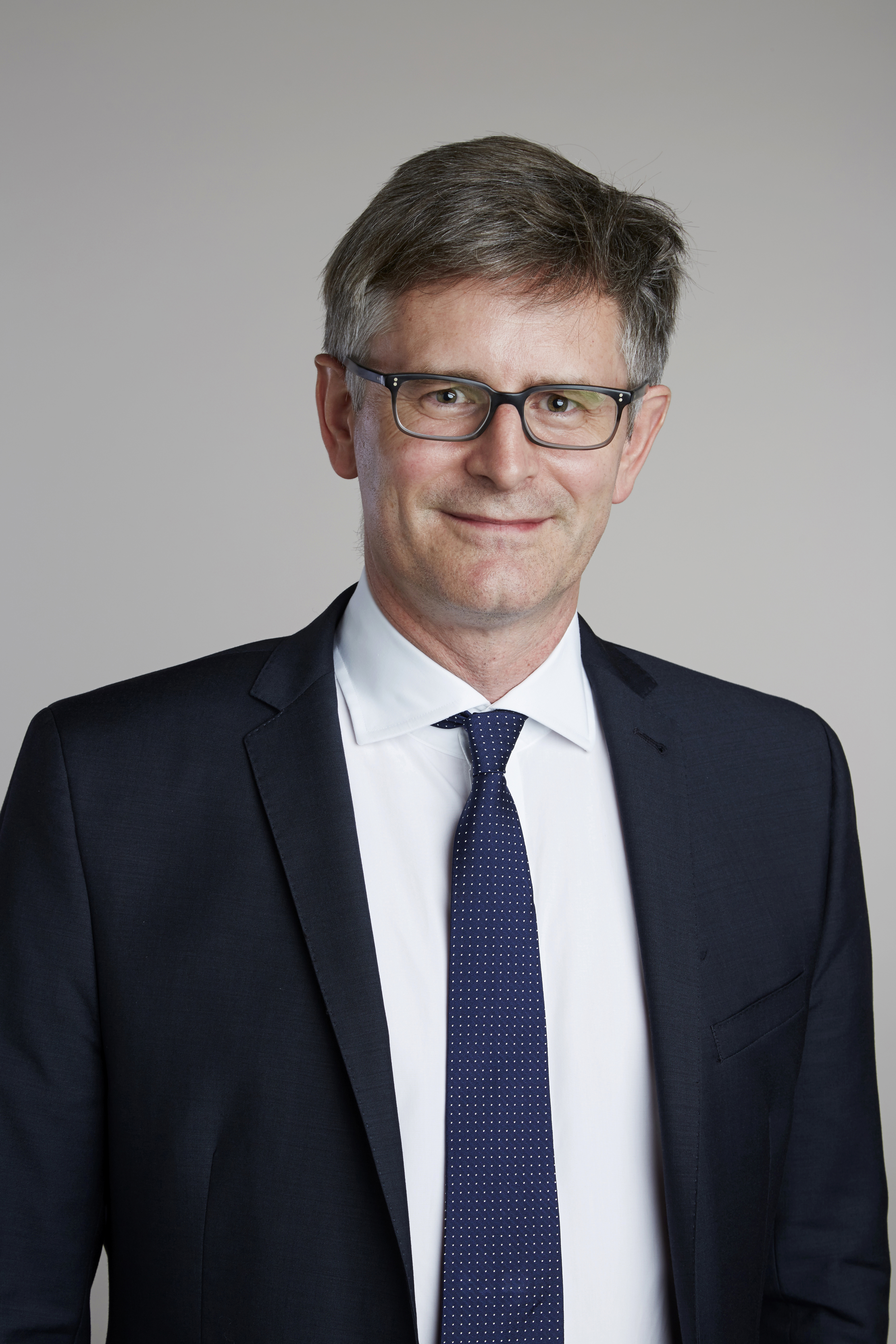 Michael Häusser is Professor of Neuroscience at University College London and a Principal Research Fellow of the Wellcome Trust. He received his PhD from Oxford University under the supervision of Julian Jack. He subsequently worked with Bert Sakmann at the Max-Planck-Institute for Medical Research in Heidelberg and with Philippe Ascher at the École Normale Supérieure in Paris. He established his own laboratory at UCL in 1997 and became Professor of Neuroscience in 2001. His group is interested in understanding the cellular basis of neural computation in the mammalian brain using a combination Attribution: The Royal Society